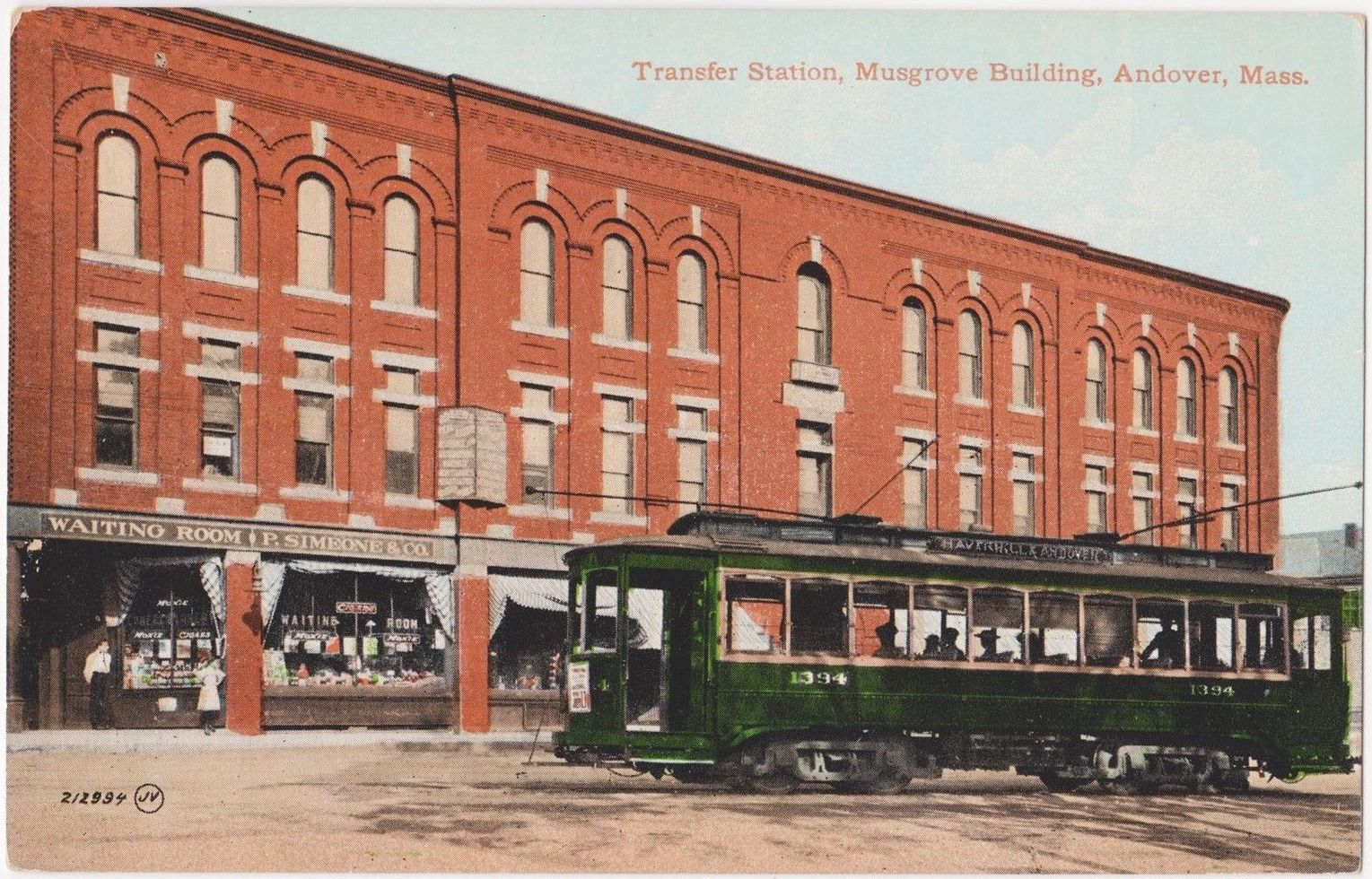 Early divided back postcard of a trolley at the waiting room on the first floor of the Musgrove Building in Andover, Massachusetts